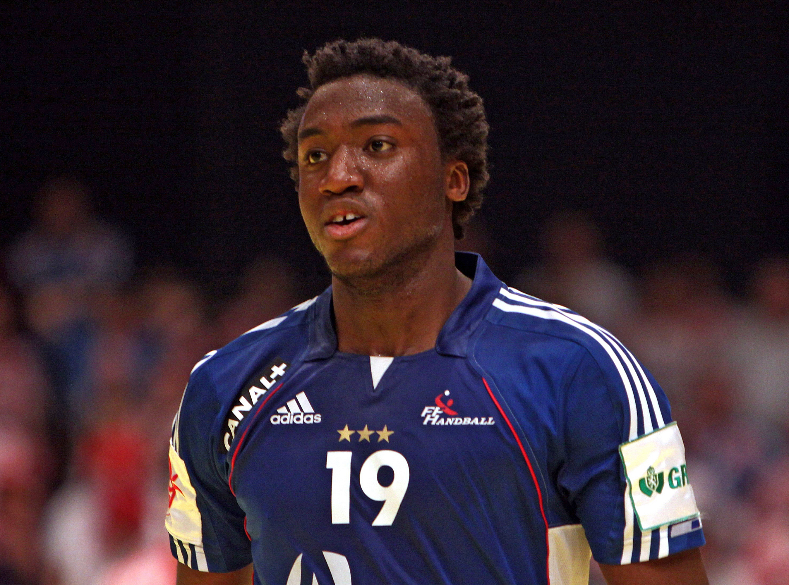 Luc Abalo (BM Ciudad Real), France national handball team